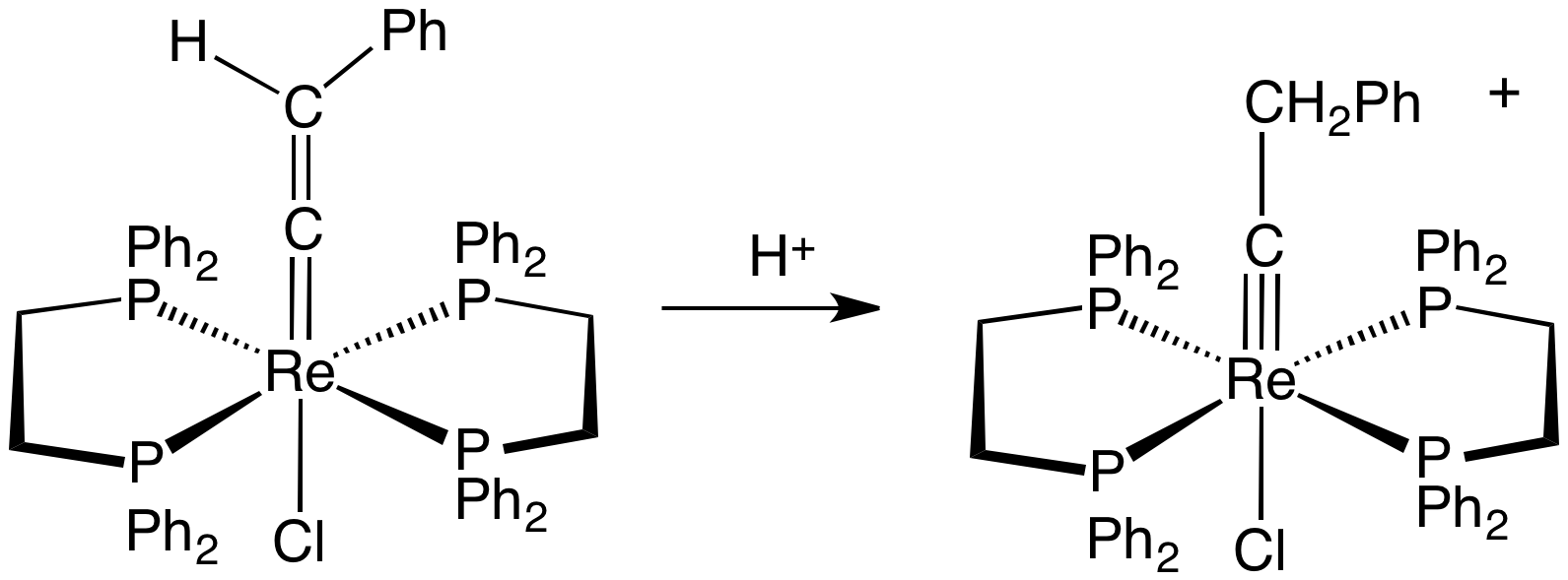 transformation of vinylidene complex to a carbyne complex